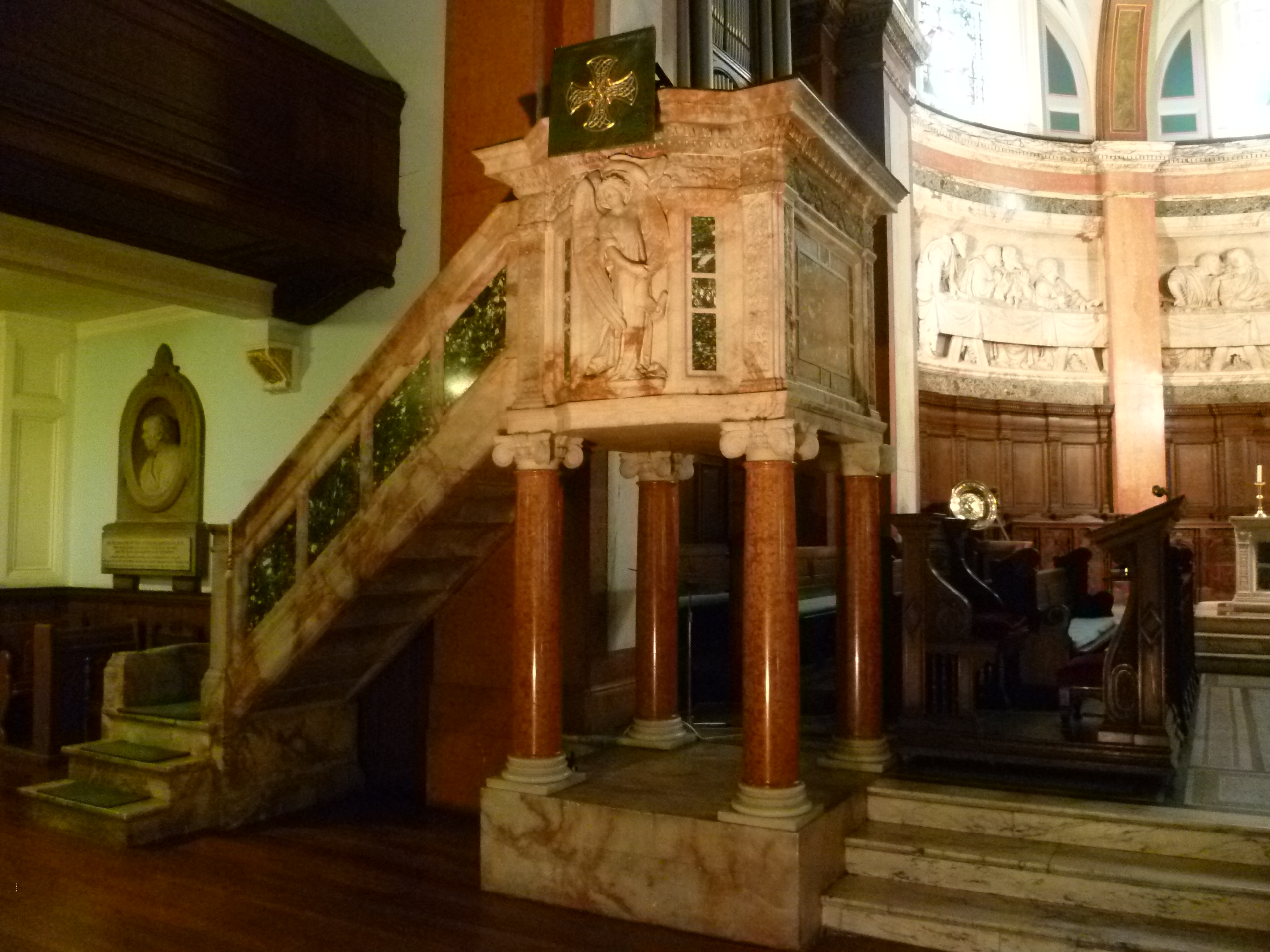 St. Cuthbert 's Kirk pulpit, c.1906